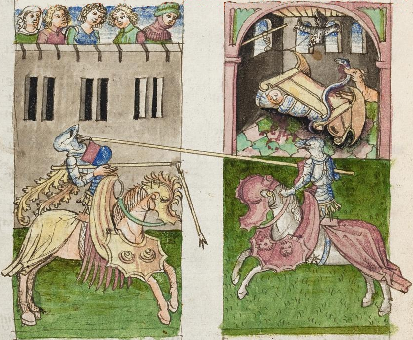 Illustration from Gesta Romanorum.